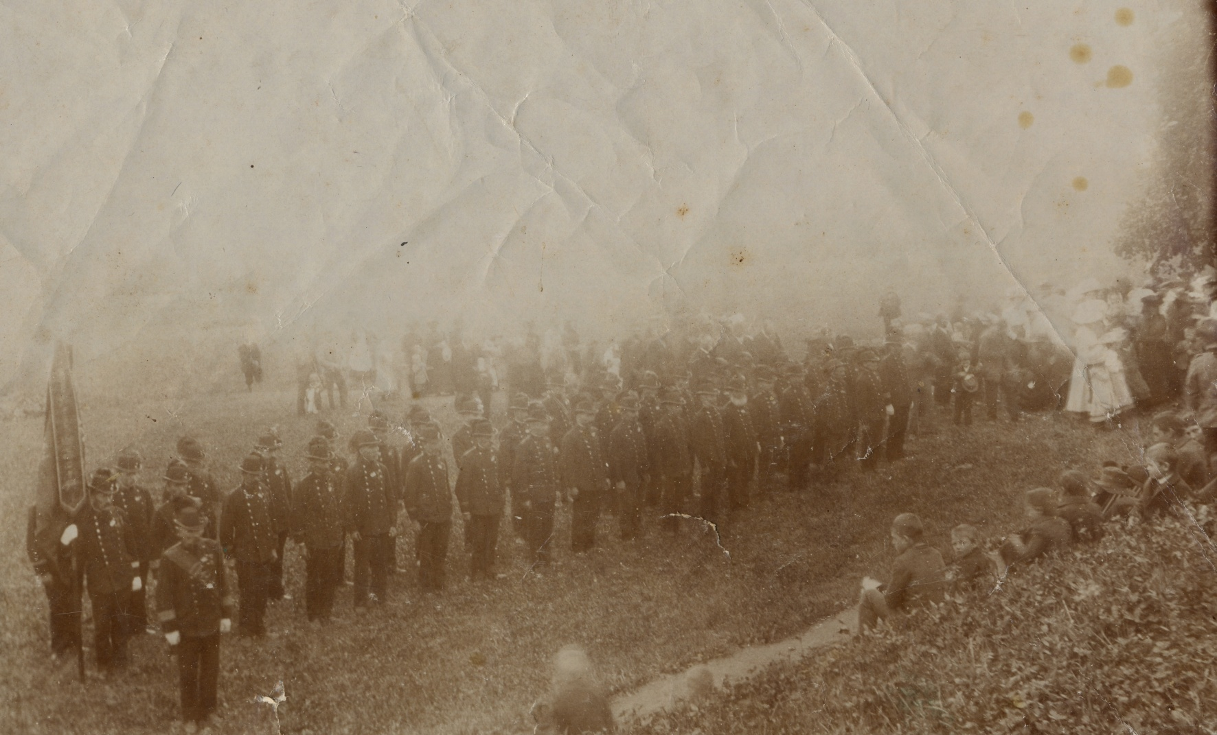 Tradtion association in Obermillstatt near Millstatt (Millstätter See), district Spittal an der Drau in Carinthia / Austria / EU.